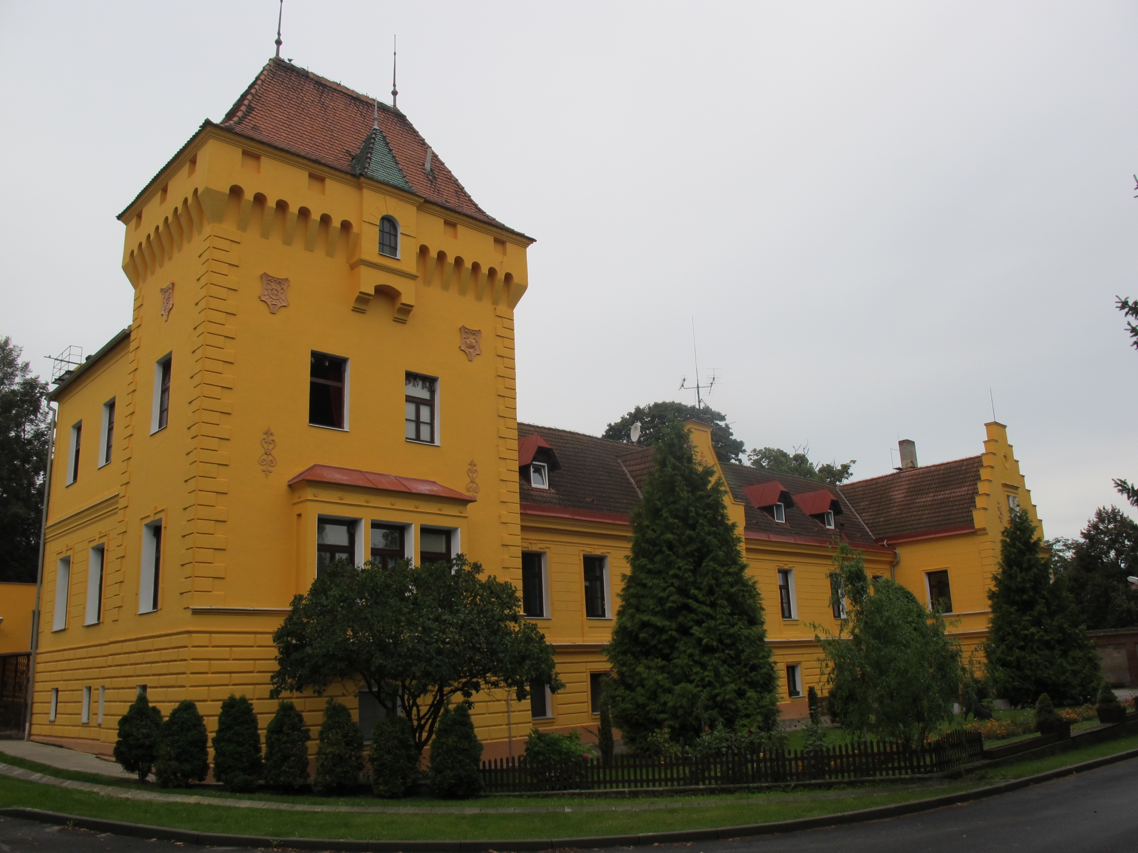 Tuchořice Castle